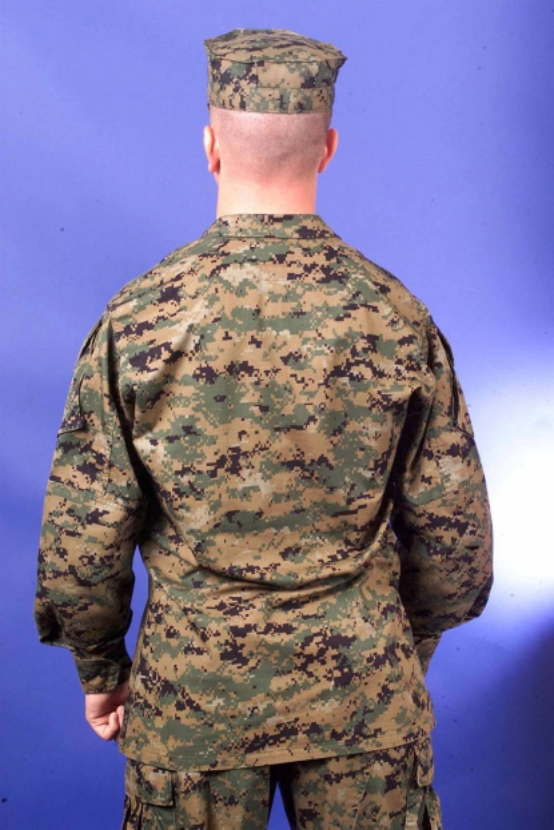 Back view of USMC MCCUU, 2002